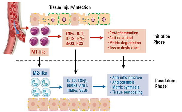 Macrophages recruited to the site of an injury or infection during the initiation phase of the inflammatory reaction have an M1 phenotype. They produce pro-inflammatory and stress mediators and cytokines, such as tumor necrosis factor α (TNFα), interleukin (IL)-1 and -12, interferon γ (IFNγ), an enzyme generating nitric oxide (iNOS), and reactive oxygen species (ROS). These macrophages have proinflammatory and antimicrobial effects and lead to matrix degradation and tissue destruction. During the resolution phase of the injury, these M1 macrophages are converted into an M2 phenotype with a different cytokine and chemokine repertoire, including IL-10, transforming growth factor β (TGF-β), matrix metalloproteinases (MMPs), arginase 1 (Arg1), tissue inhibitors of metalloproteinases (TIMPs), and vascular epithelial growth factor (VEGF). These M2 macrophages have anti-inflammatory effects and promote blood-vessel formation (angiogenesis), matrix synthesis, and tissue remodeling.